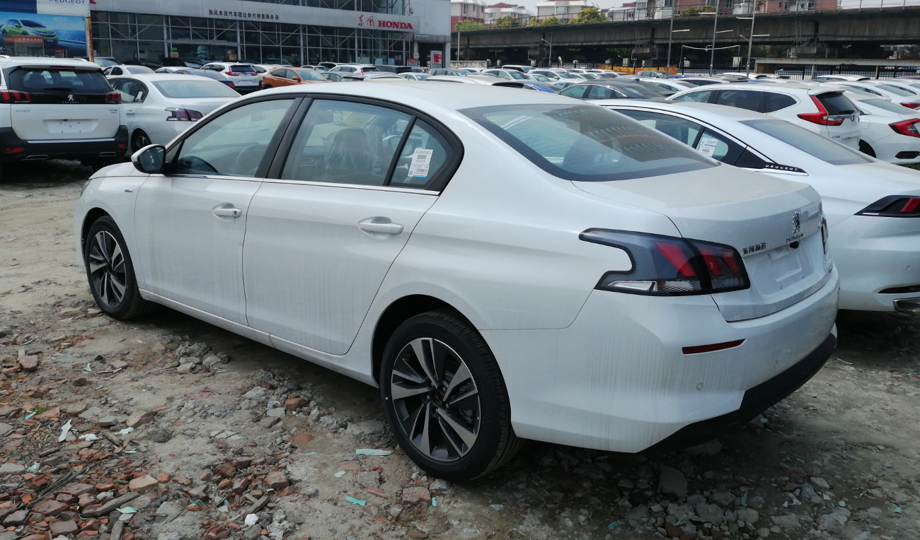 Peugeot 408 II facelift photographed in Shanghai, China.